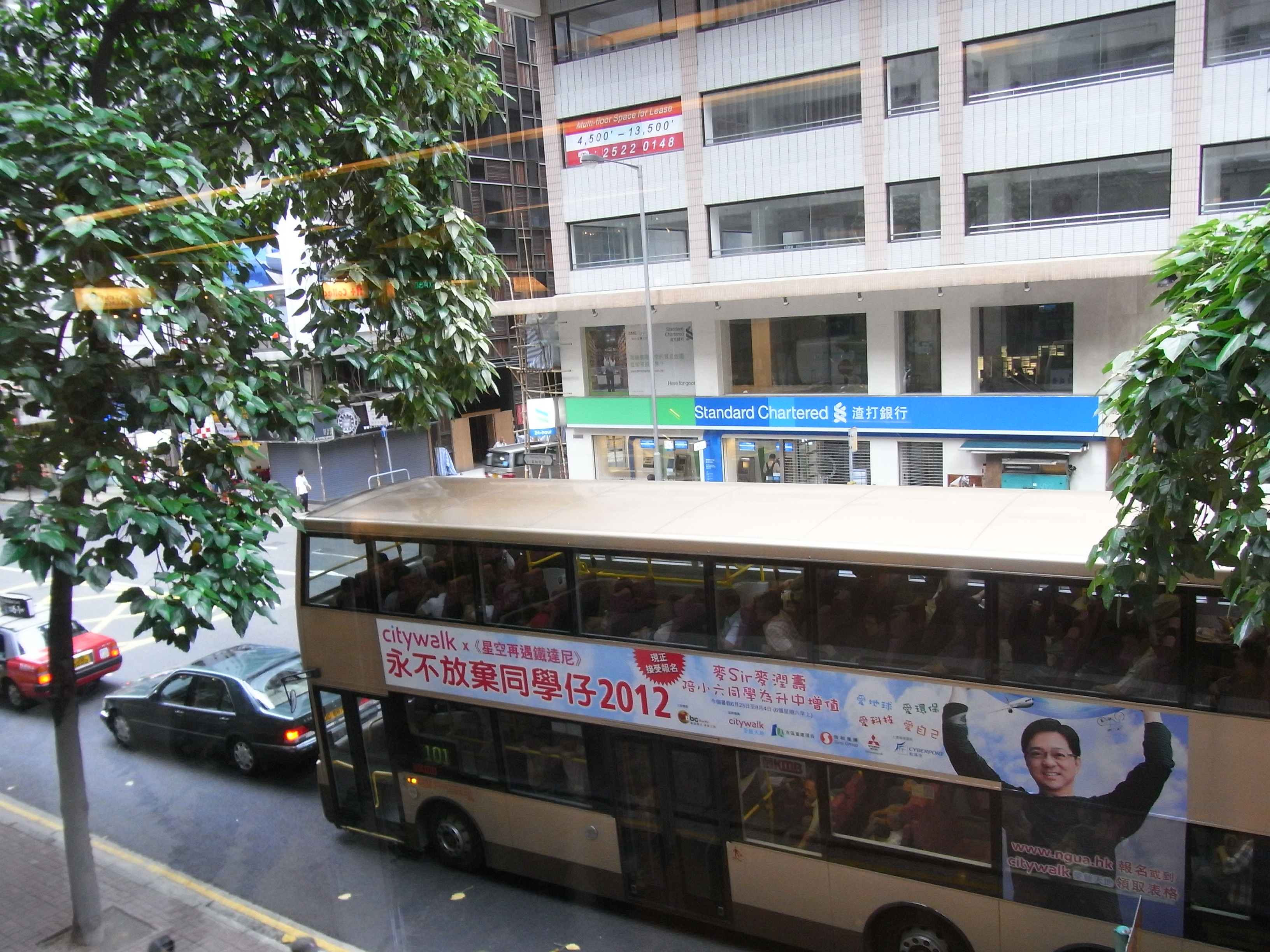 麥潤壽, Bus body ads, Fleming Road, Wan Chai, Hong Kong